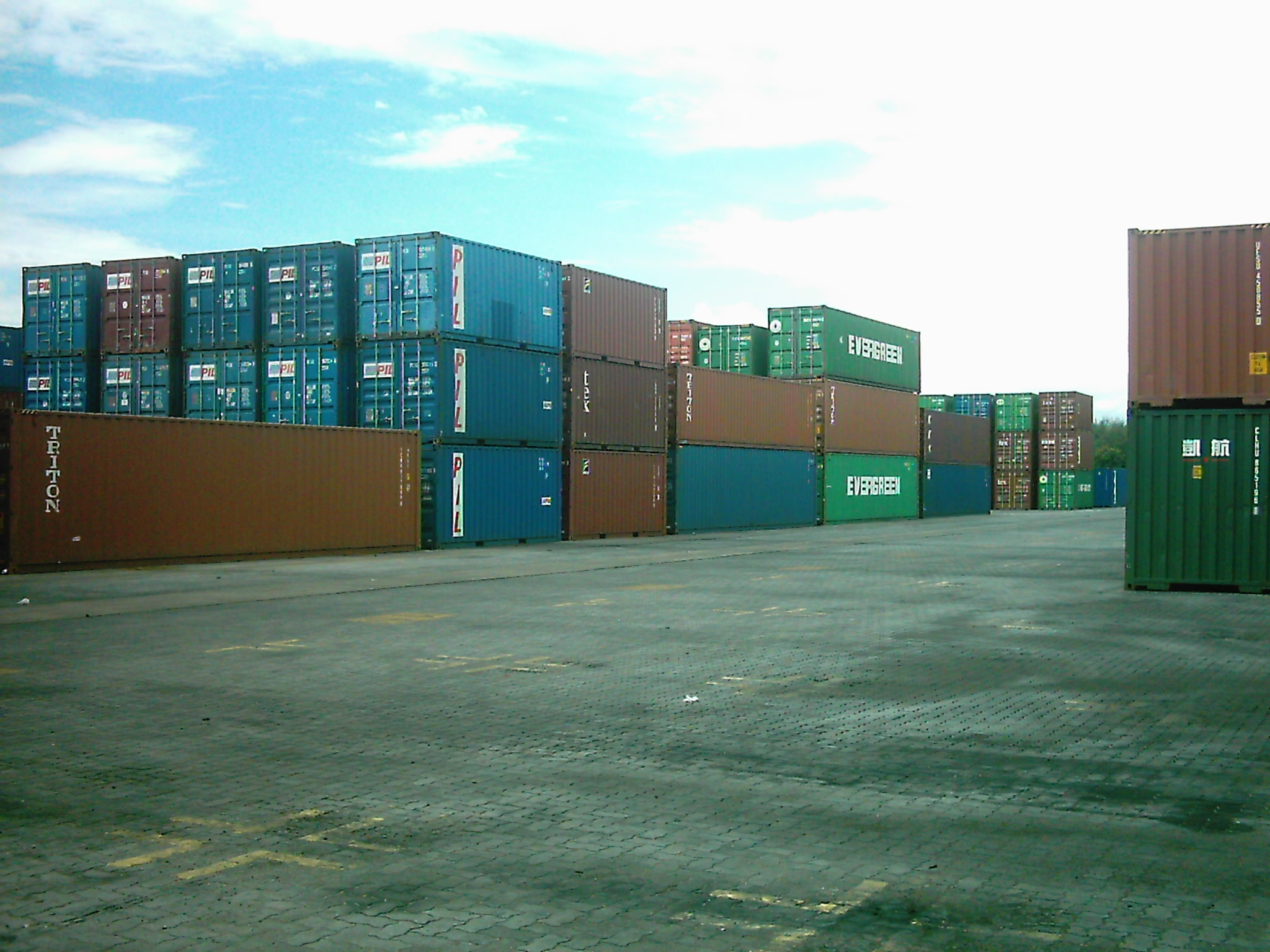 Kuantan Port Container Yard offers free storage period of 40 days for transshipment container.